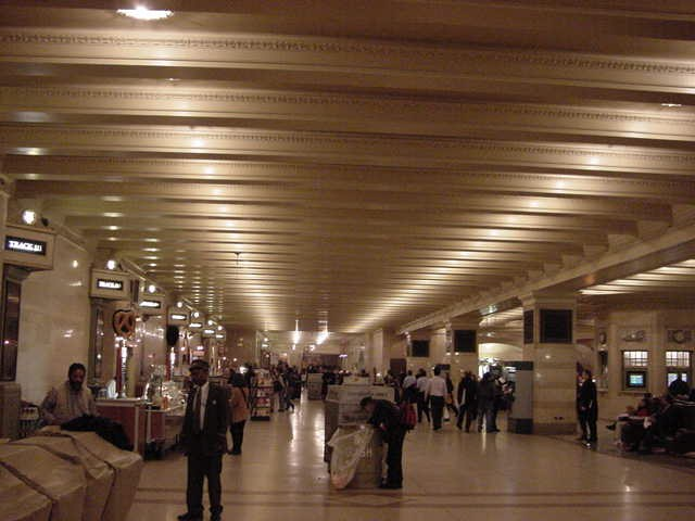 Grand Central Terminal NYC. Lower concourse.